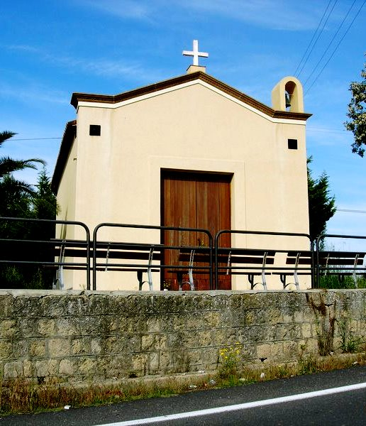 Chiesa della Madonna della Catena (Villarosa) (1).jpg